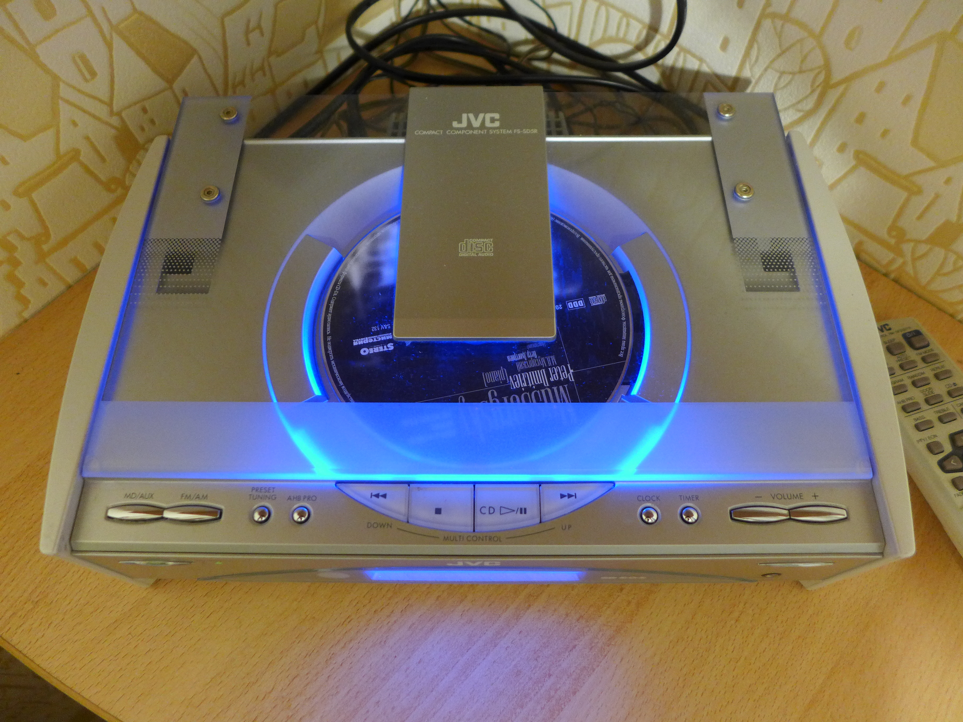 Late 90th JVC FS-SD5R stereo CD player